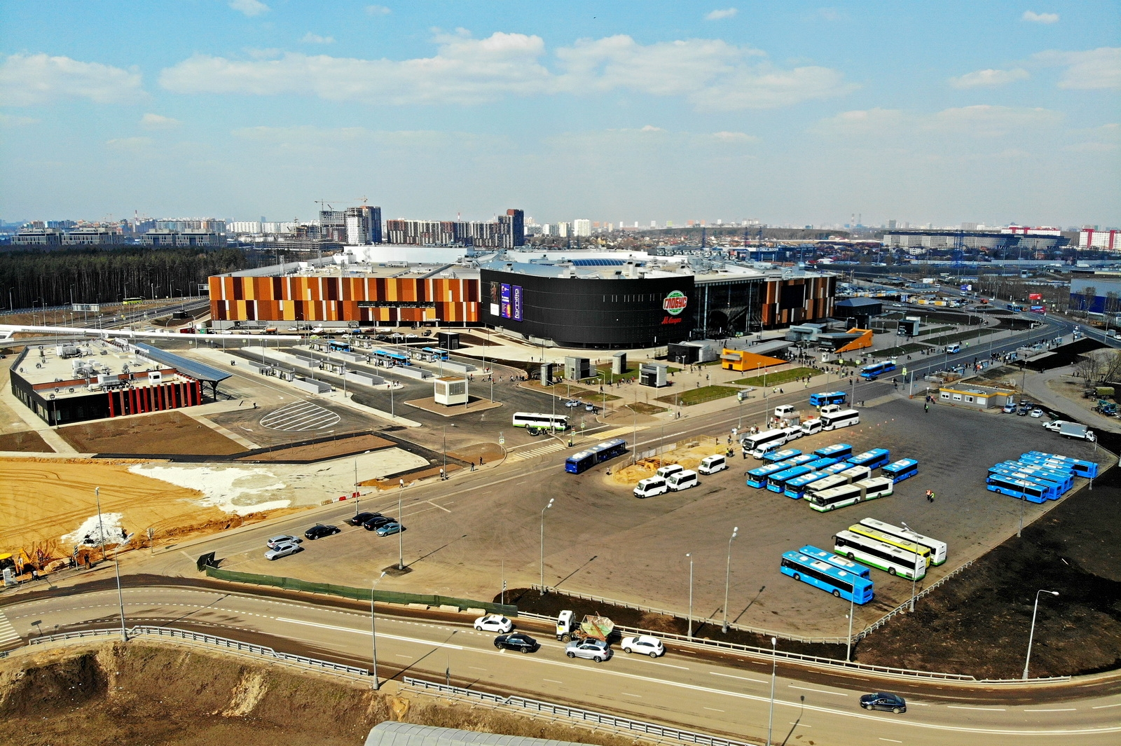 Transport hub Salaryevo in Moscow